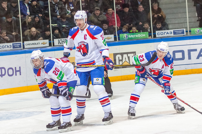 KHL-game Amur Khabarovsk — HC Lev Praha on December 2, 2012. HC Lev Praha players (LTR): Petr Vrána, Zdeno Chára (#33), Ľuboš Bartečko (#23)